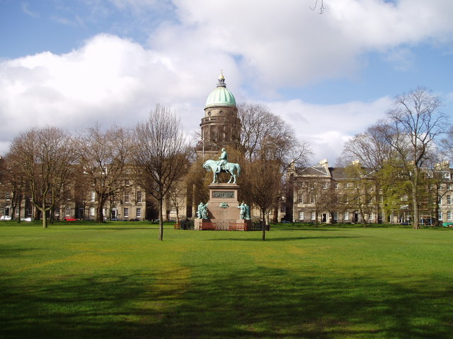 Charlotte Square, Edinburgh. Looking west across the square towards the dome of West Register house with the equestrian statue of Prince Albert by Sir John Steell in the centre of the square. West Register House (formerly St George's Church) was designed by Robert Reid and completed in 1814, most of the rest of the square was designed by Robert Adam in 1791 which was the last year of his life.